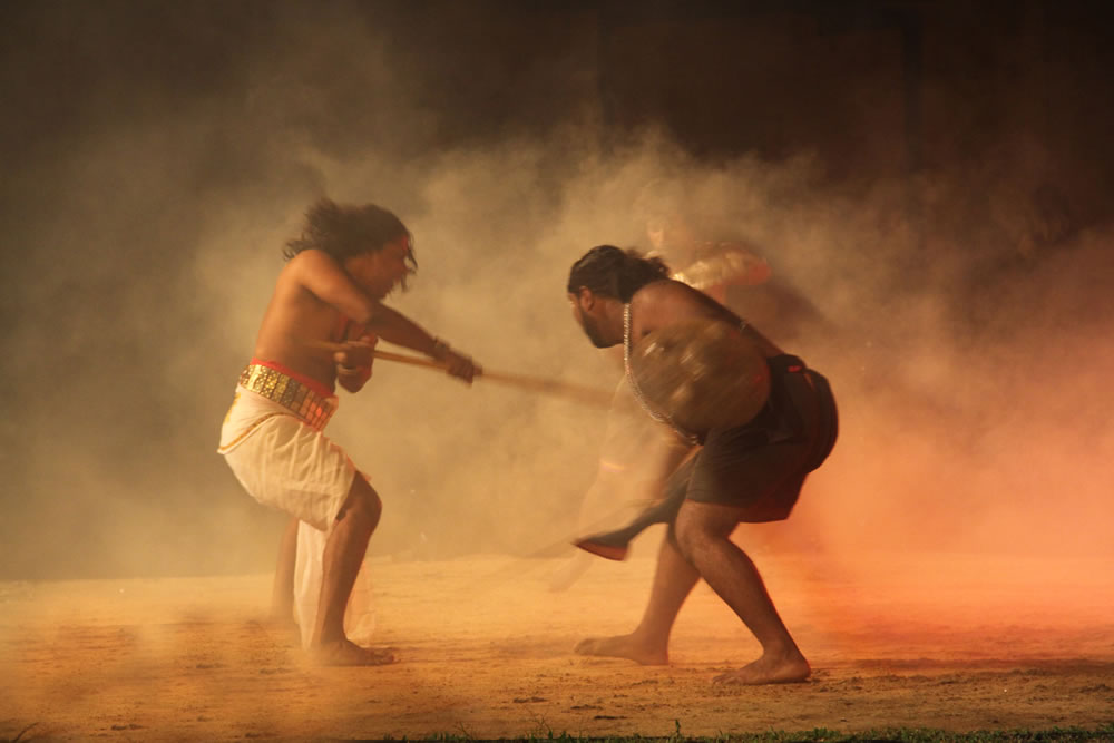 angampora swords fighters